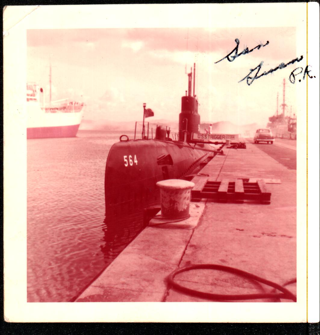 USS Trigger in San Juan Puerto Rico Taken by Jack Quigley (Sonar man - SO) somewhere between 1956-59.